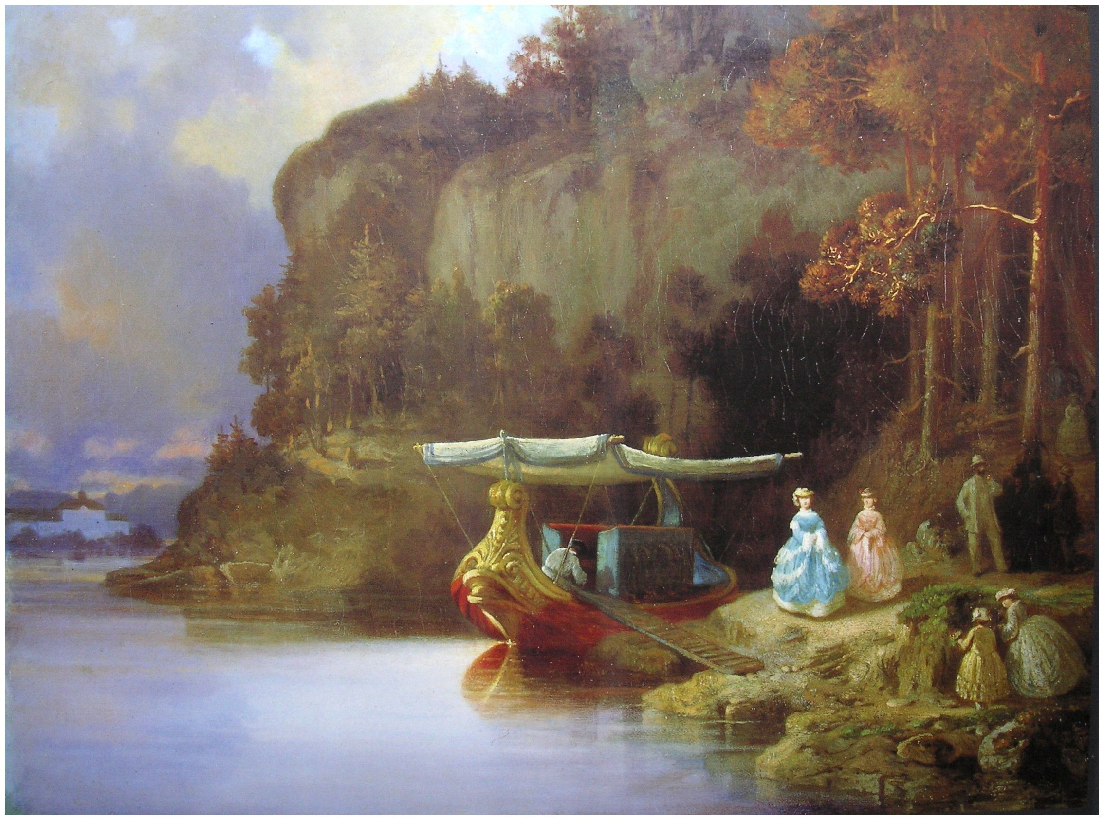 Ulriksdal palace can be seen to the left in the background.